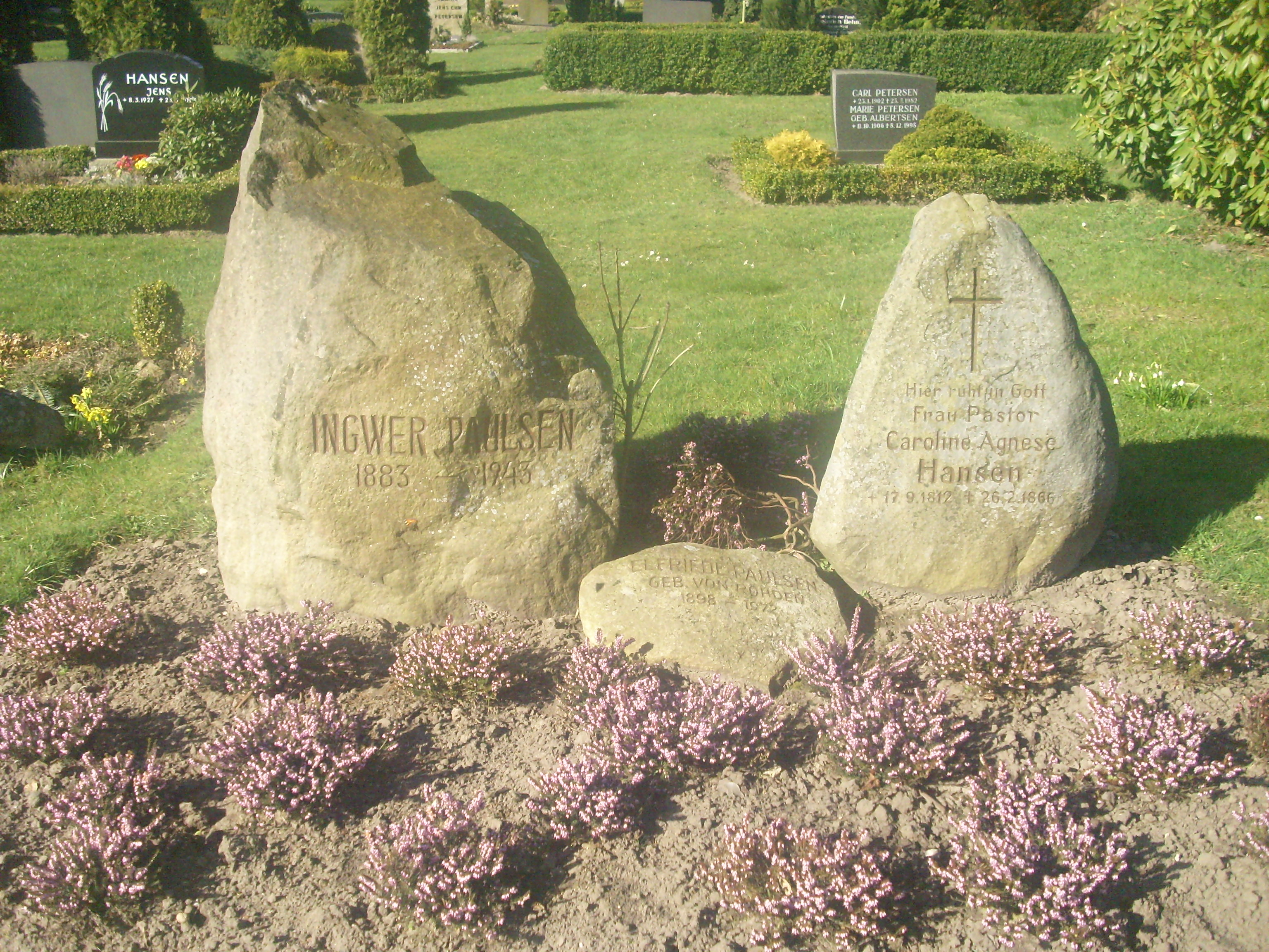 tombstone of painter and graphic designer Ingwer Paulsen (1883-1943) in Hattstedt, Schleswig-Hostein, Germany.